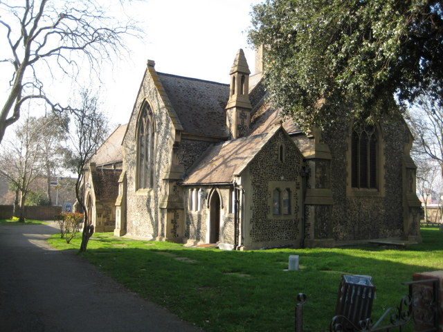 Grays Parish Church The Church of St Peter and St Paul. In the High Street opposite New Road.